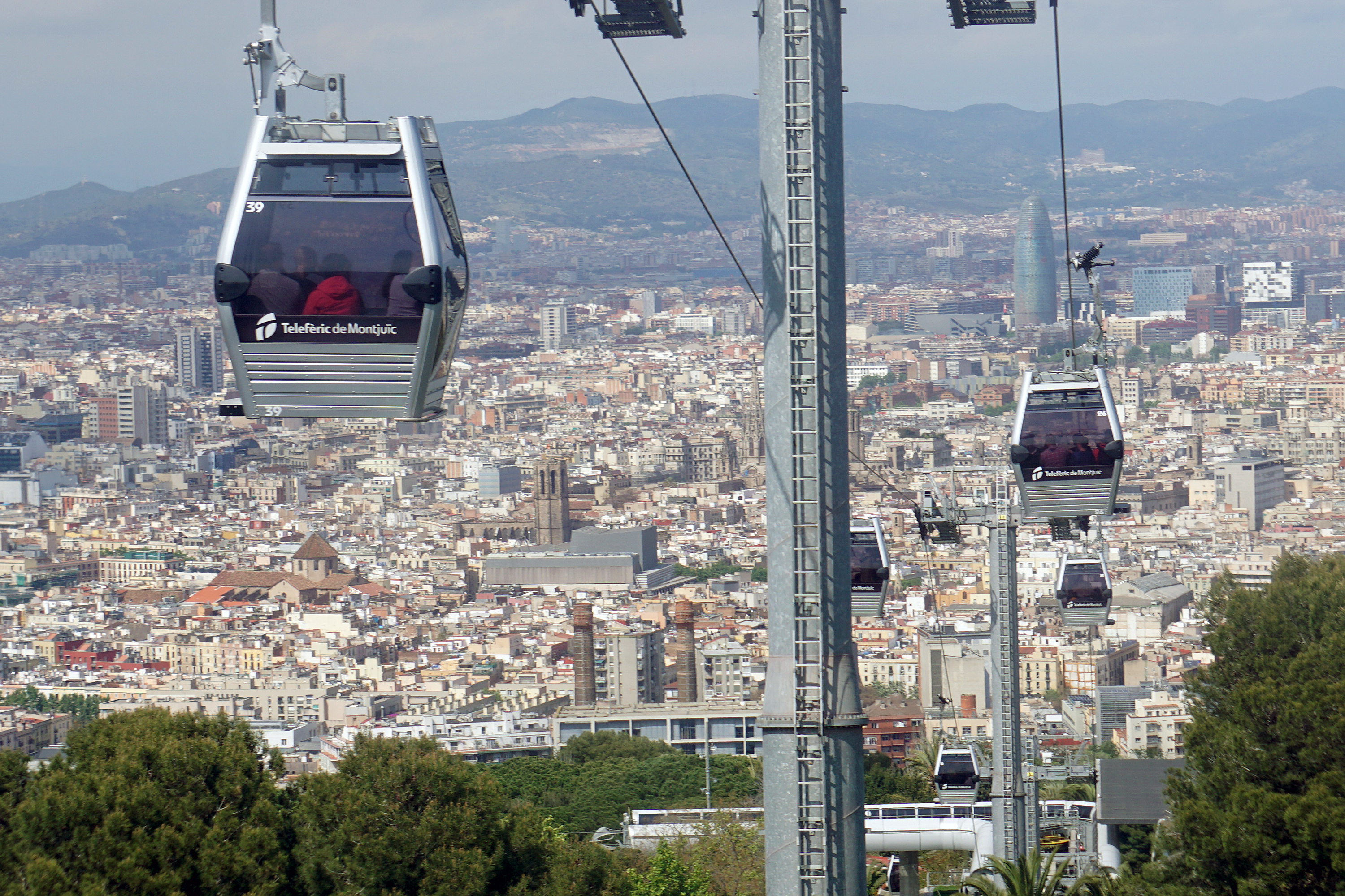 Montjuïc Cable Car, Barcelona, Spain